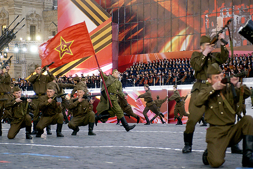 RED SQUARE, MOSCOW. Performance of a re-enactment commemorating the sixtieth anniversary of victory in World War II.